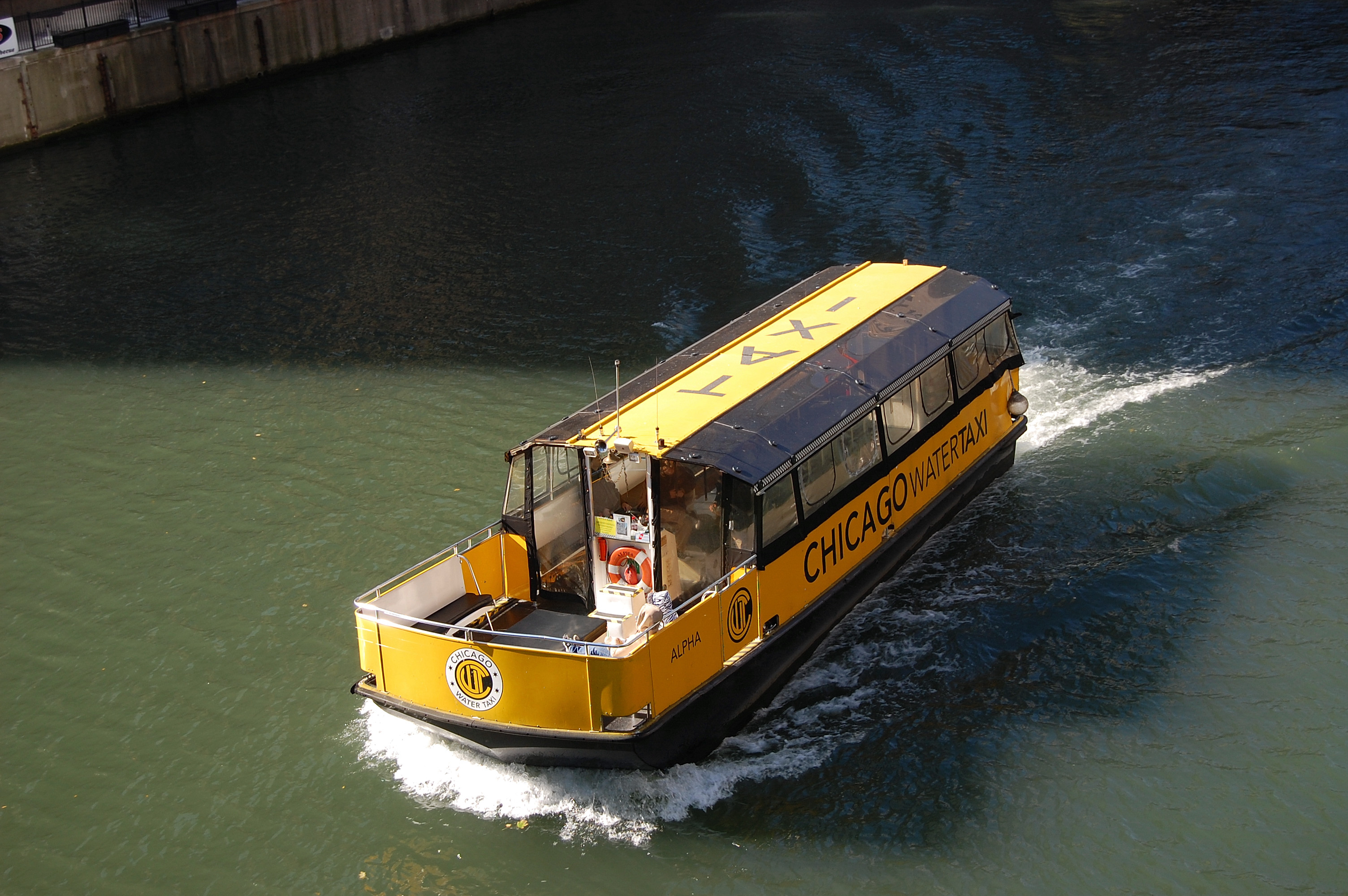 Chicago River Taxi, Chicago Water Taxi